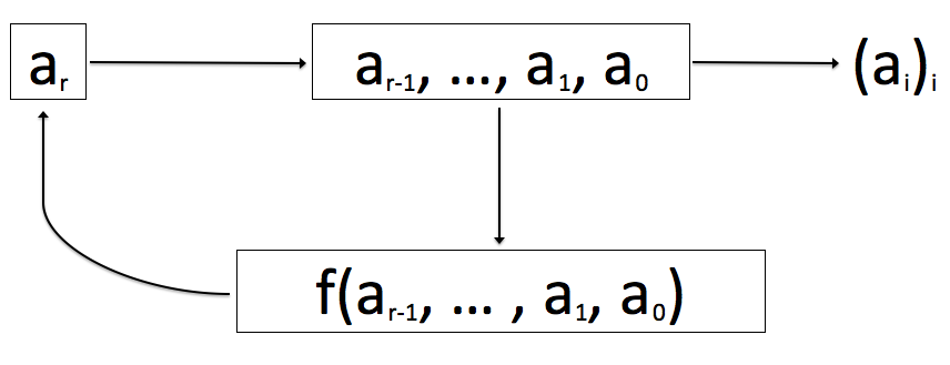 Conception FSR